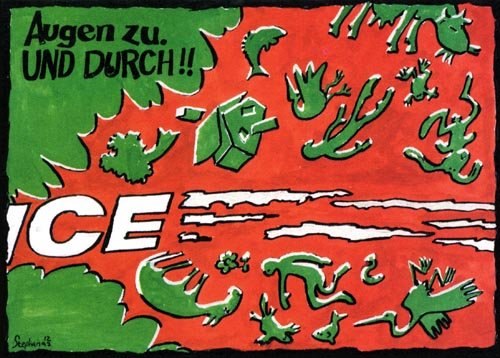 A protest post card against the Nuremberg-Erfurt high-speed railway line. The card was published in 1994 for the citizen's group The better rail concept (Das bessere Bahnkonzept) as a part of a campeign against the new high-speed line. The text says: Close your eyes. GO TRHOUGH IT!